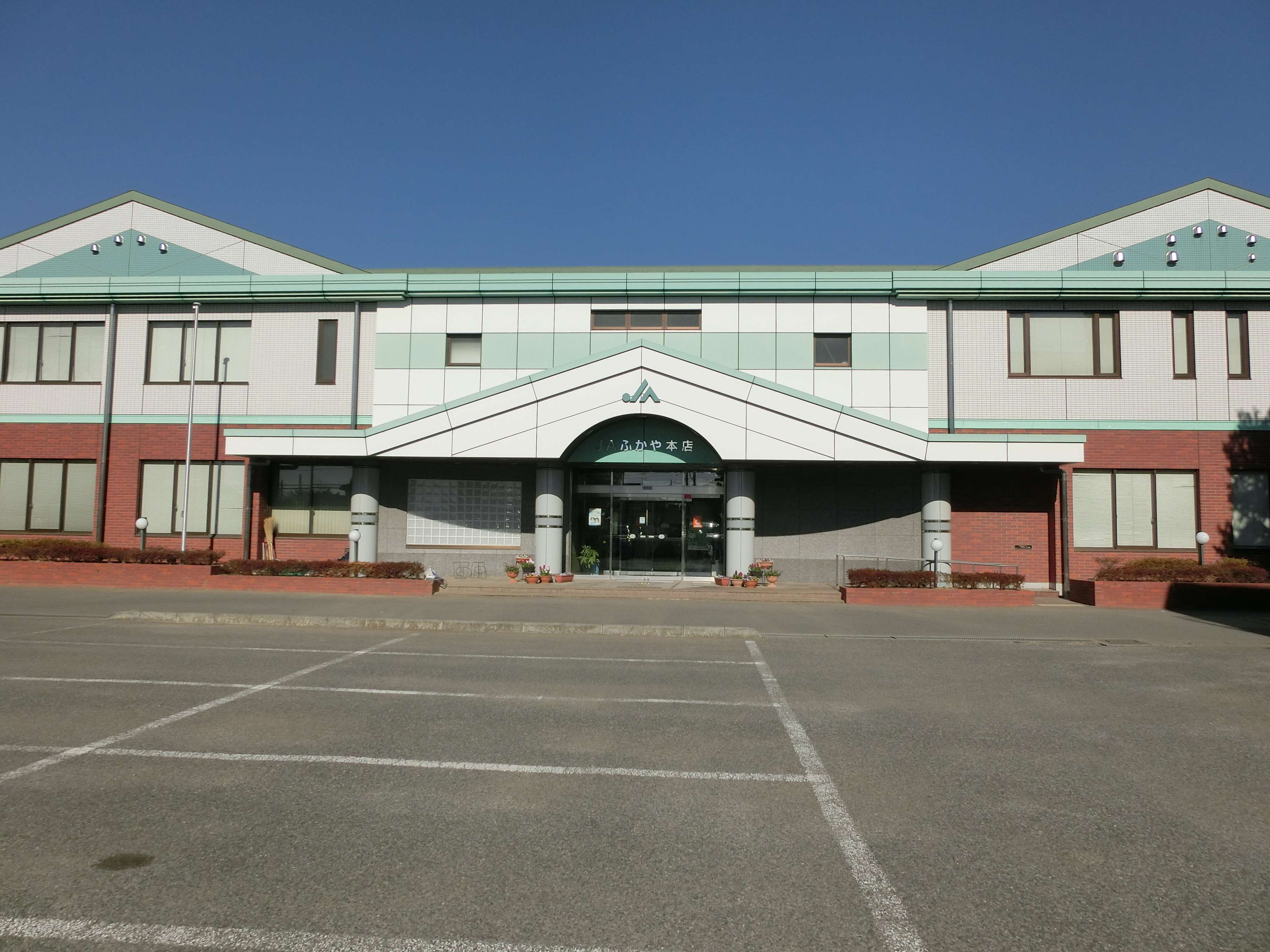 JA Fukaya Headquarters